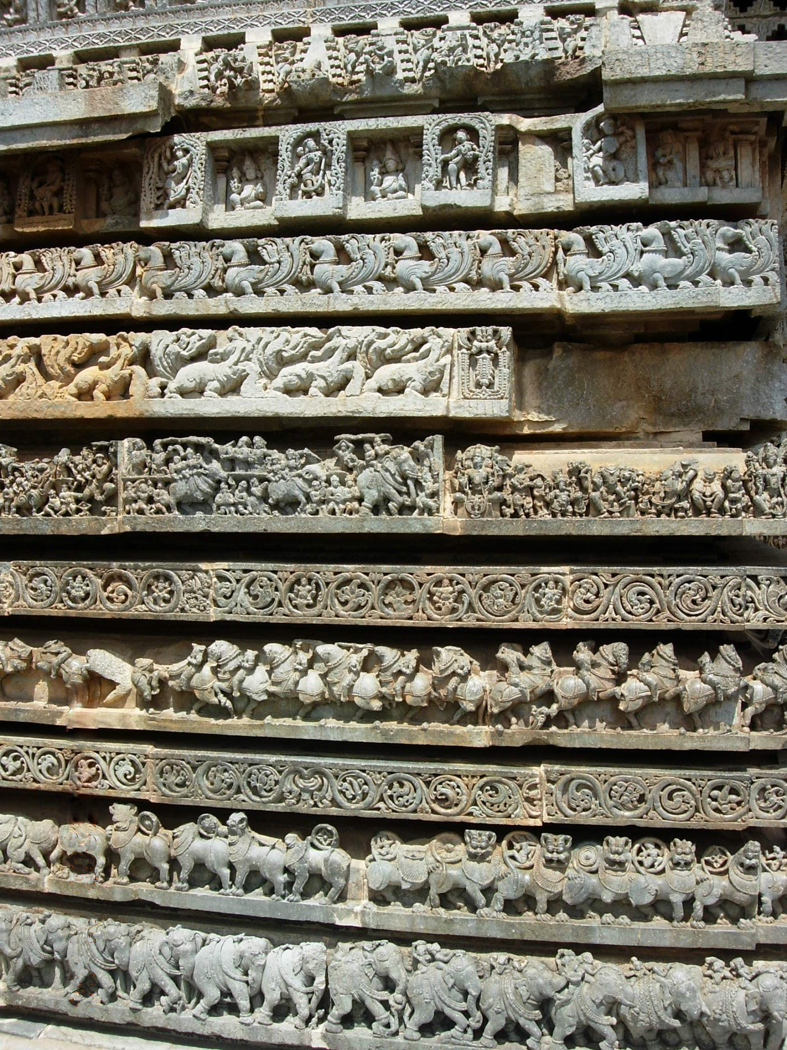 Frieze of animals, scenes from mythological episodes at the base of the temple - Hoysaleswara temple, Halebid Photo taken by self.